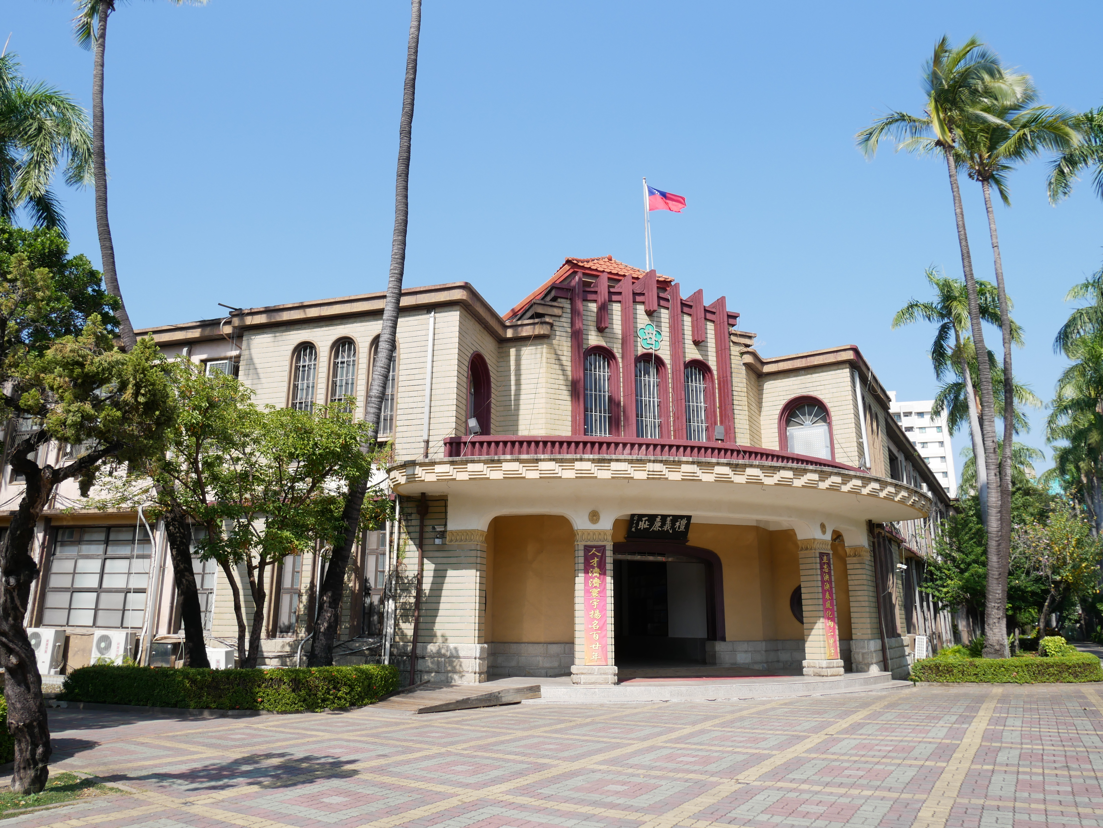 臺南第二公學校（寶公學校），臺南市北區立人里